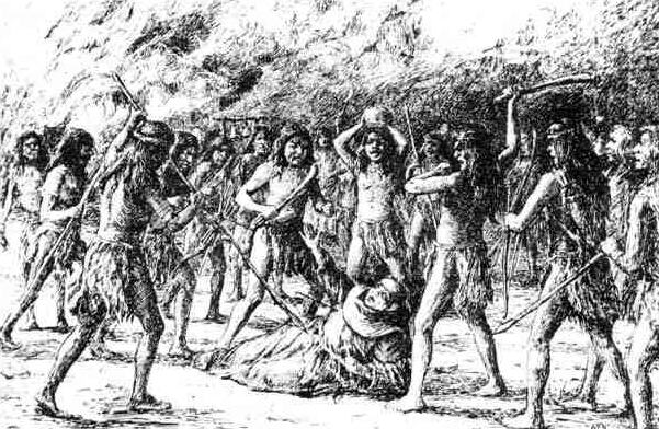 Illustration depicting the death of Father Luís Jayme at Mission San Diego Alcalá, November 4, 1775. From The Journal of San Diego History.